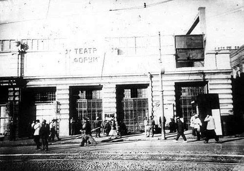 "Forum" cinema in Baku (Azerbaijan).